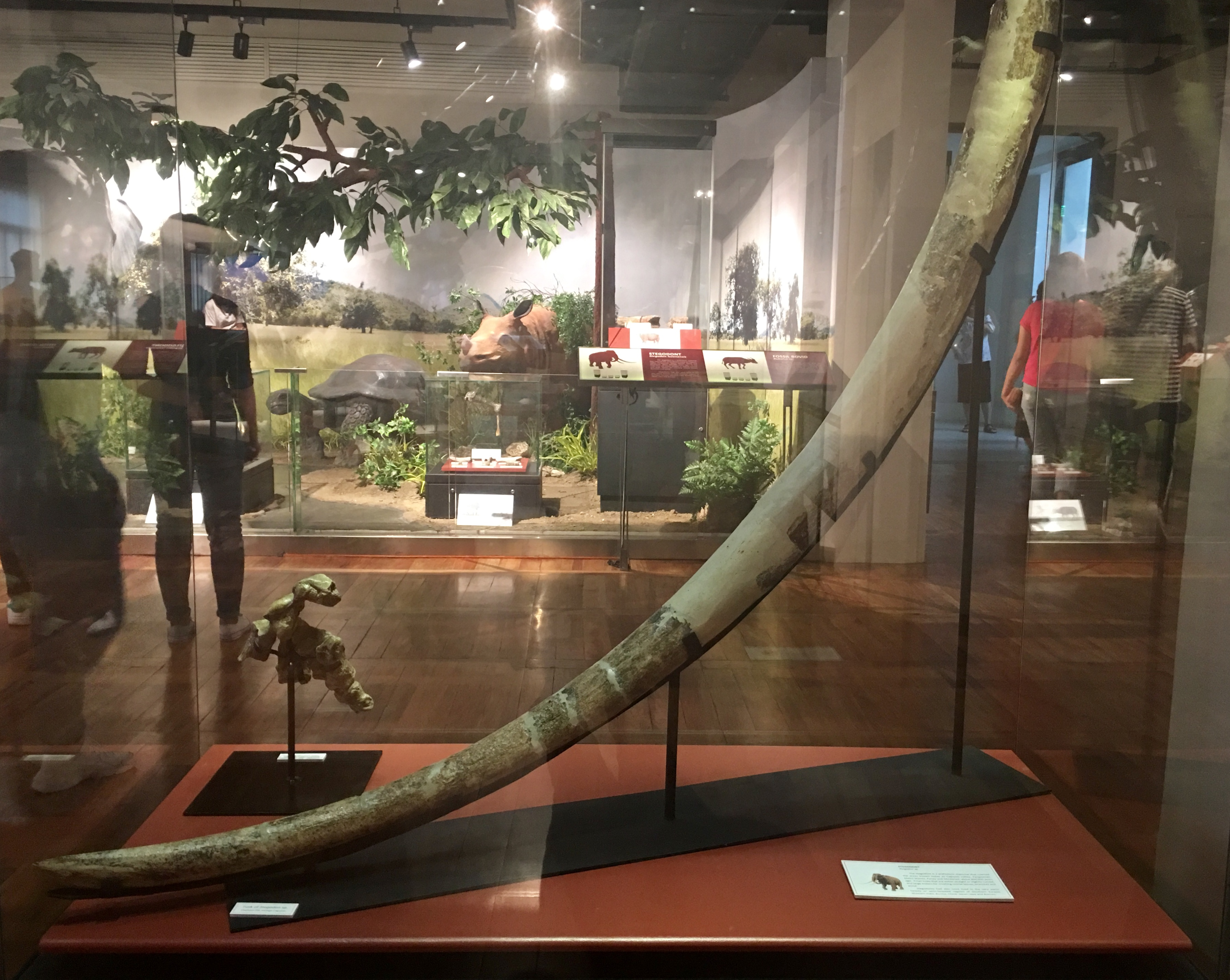 Stegodon’s ivory displayed at Philippine National Museum